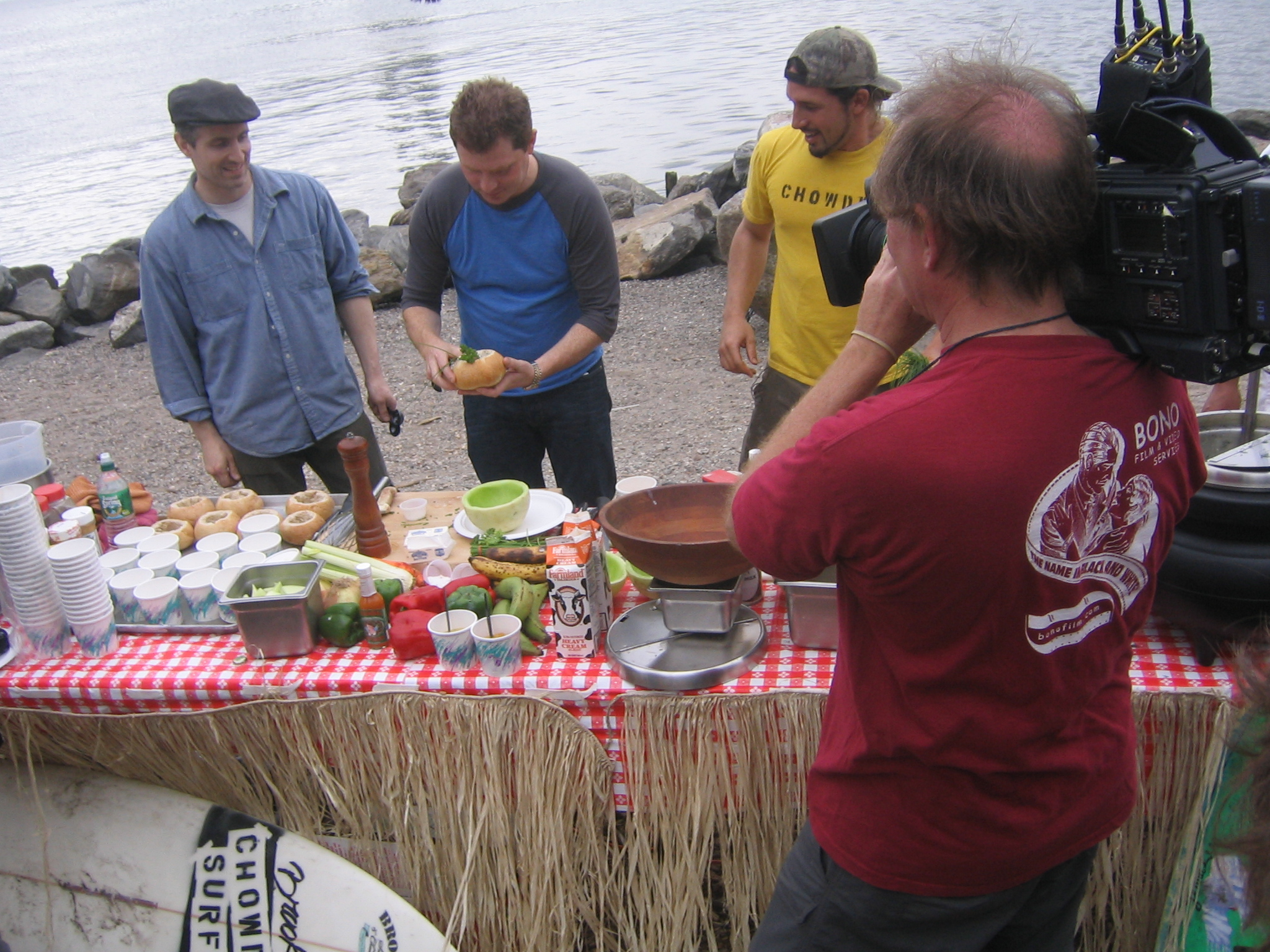 has Ben's new england clam chowder